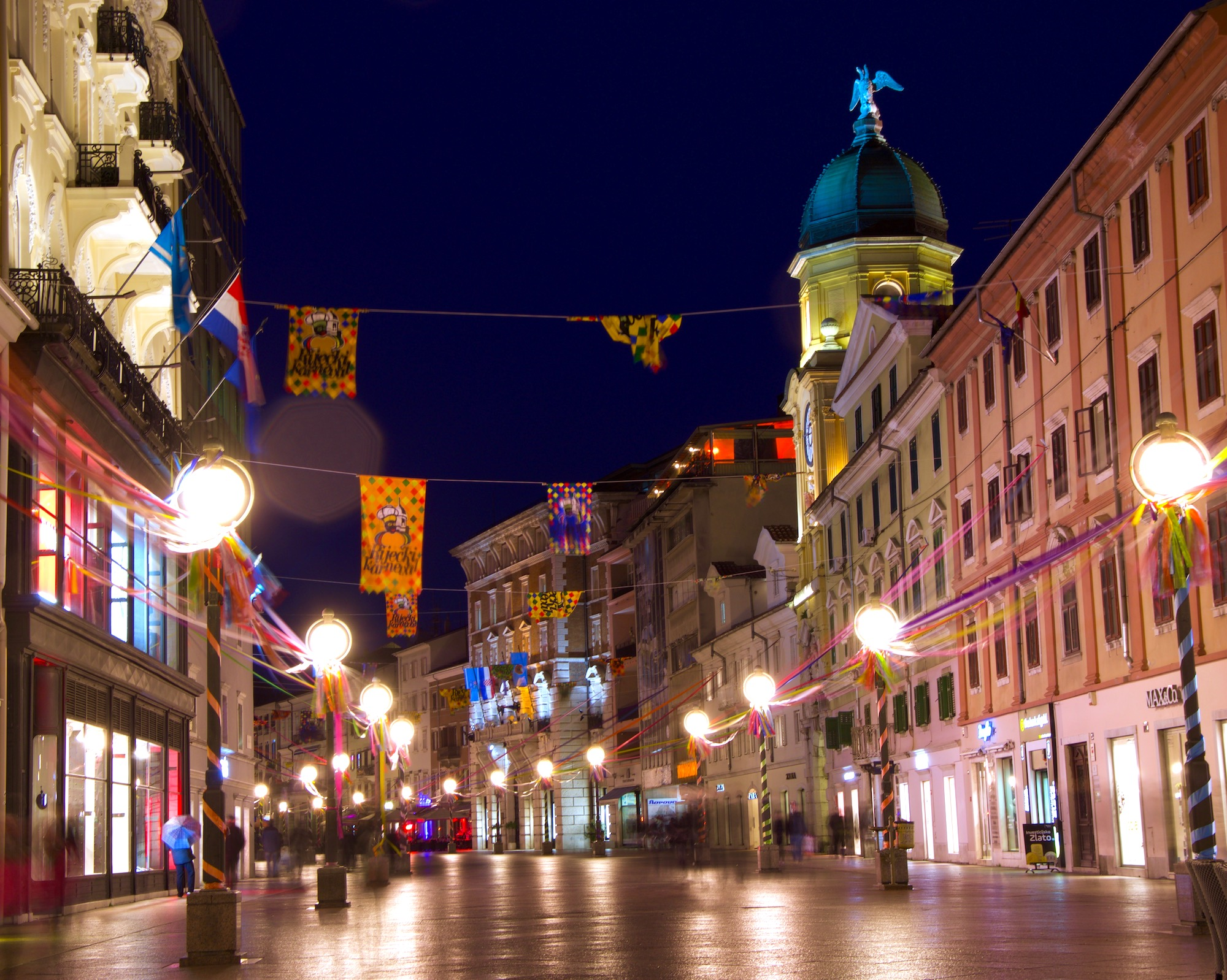 Korzo and City Tower